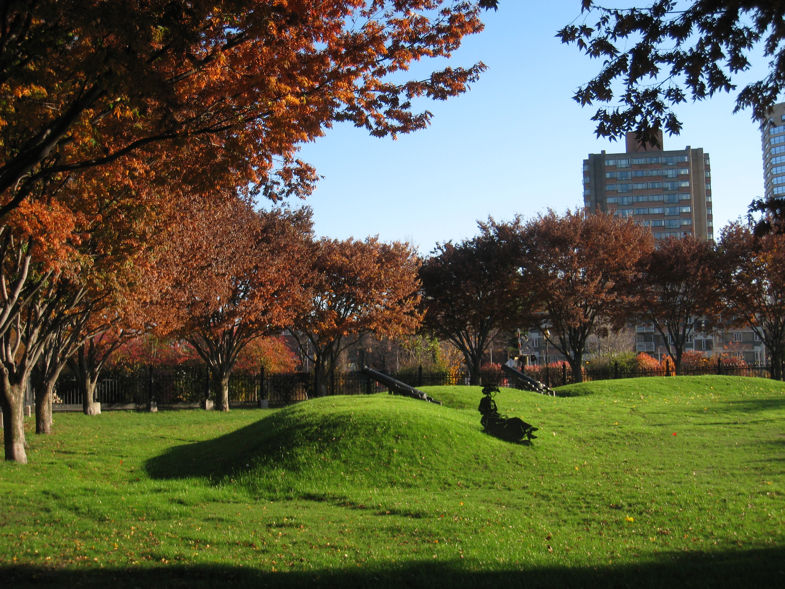 General view of Fort Washington Park, on Putnam Ave, Cambridge, Massachusetts, USA. This park contains the remains of the only extant, Boston-area Revolutionary War siege fortification constructed by General George Washington. I took this photograph.